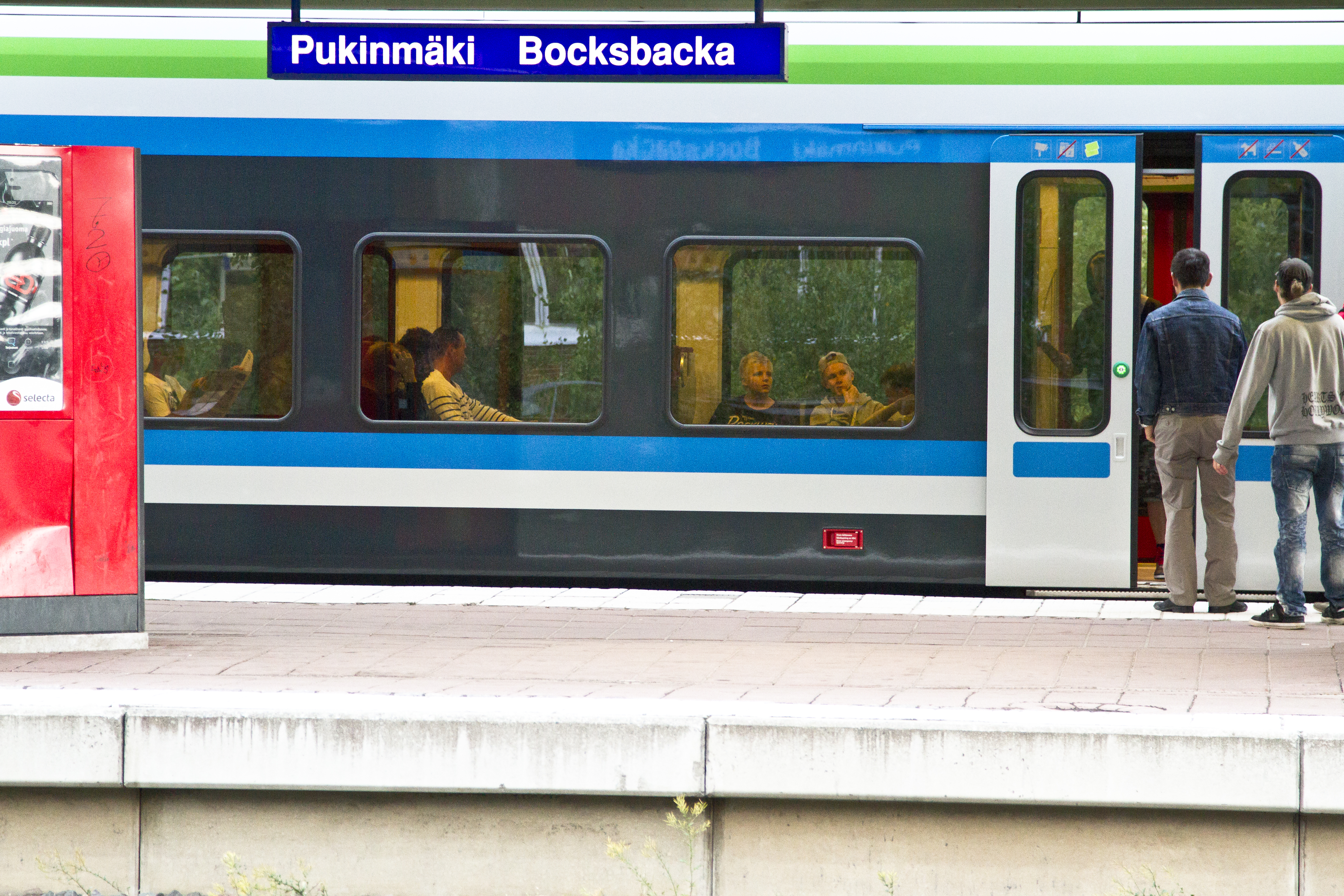 Passengers entering to train in Pukinmäki railway station.